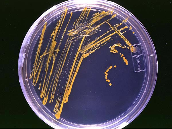 An agar plate with microorganisms isolated from a deep-water sponge.